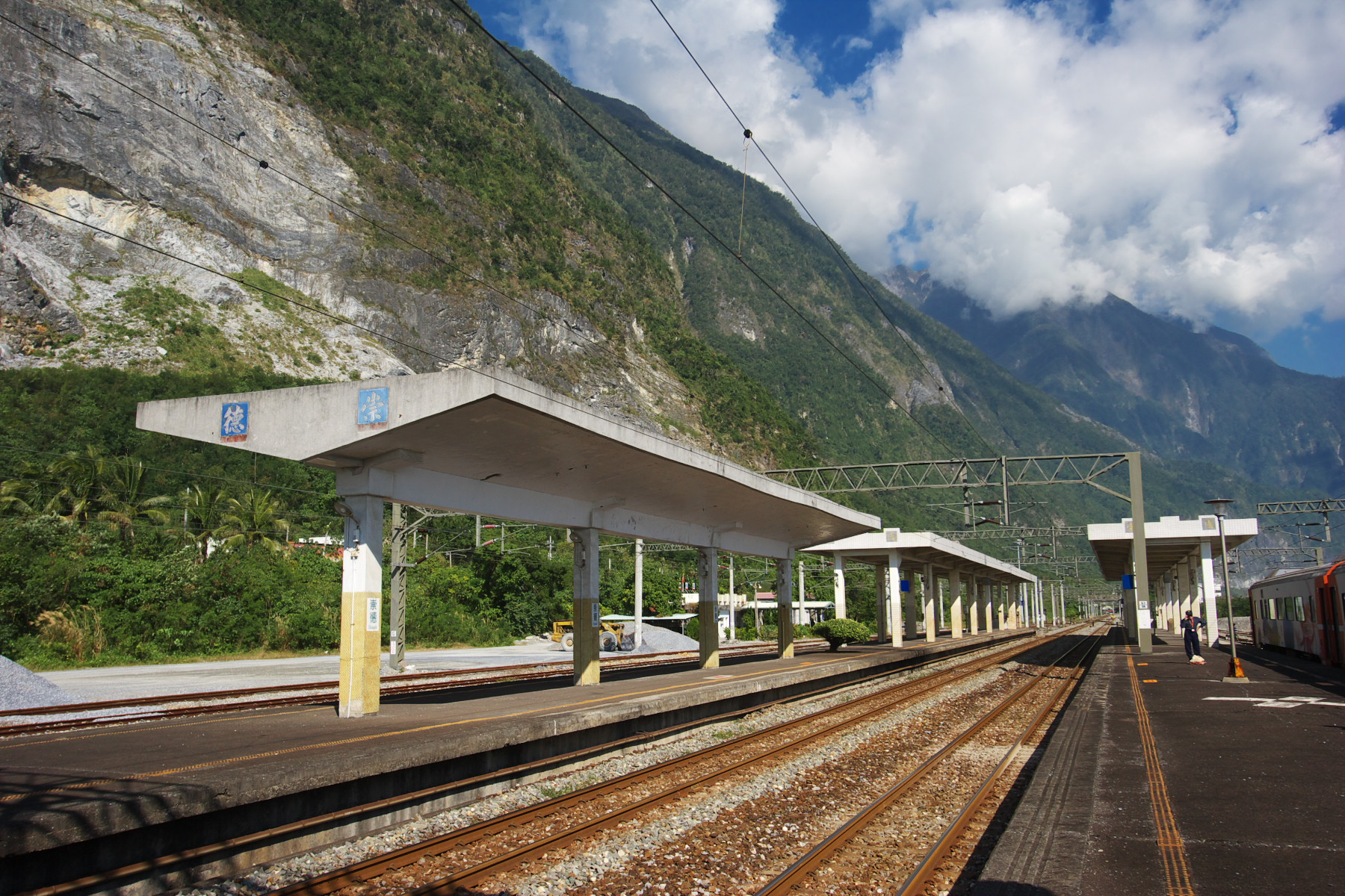 Taiwan Railway Administration Chongde Station.